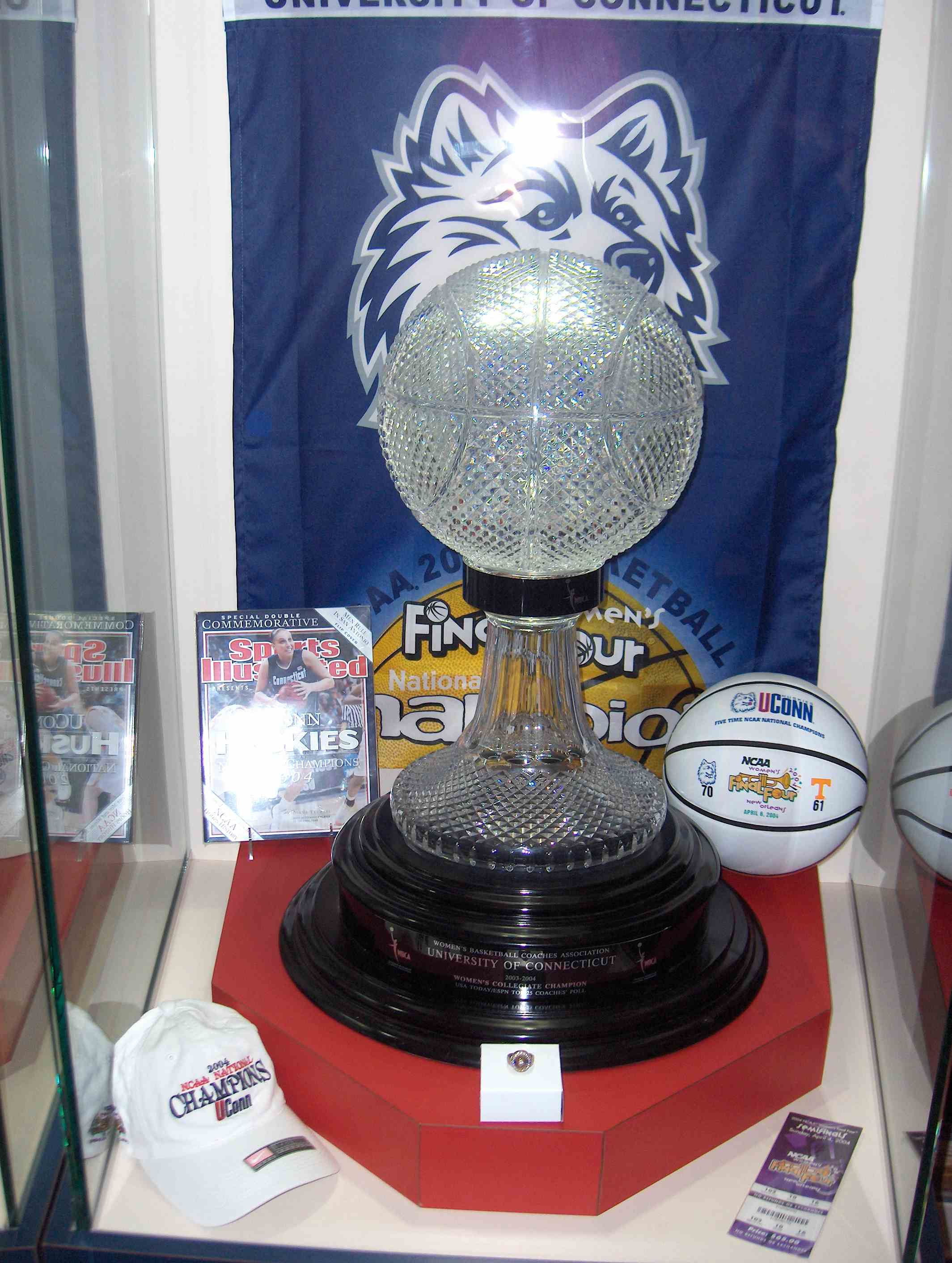 National Championship trophy, championship ring, ball signed by team, and other memorabilia in trophy case at the University of Connecticut (Alumni building, in Storrs CT USA) celebrating winning of the 2004 NCAA Division 1 Womens basketball tournament.